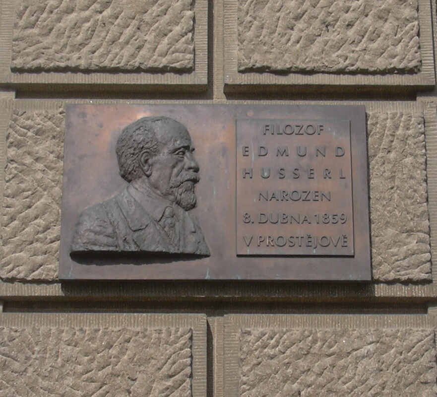 Plaque commemorating Edmund Husserl in Prostějov, Czech Republic PHILOSOPHER EDMUND HUSSERL BORN 8 April 1859 IN PROSTĚJOV